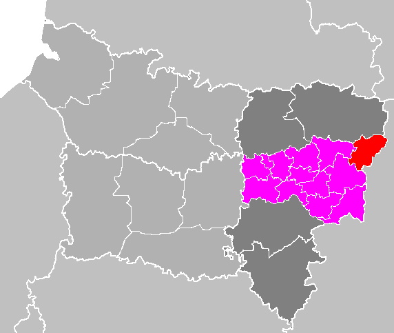 Maps of arrondissements and cantons of France: Arrondissement de Laon